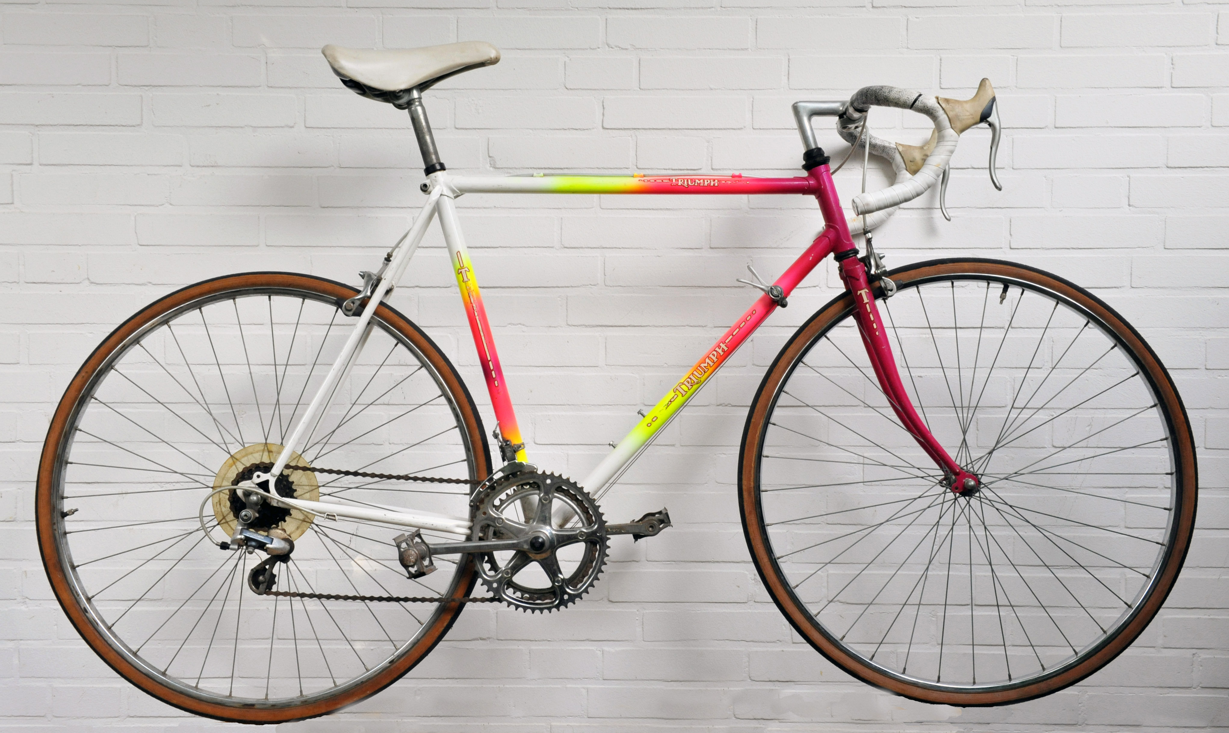 Racing bike from Triumph